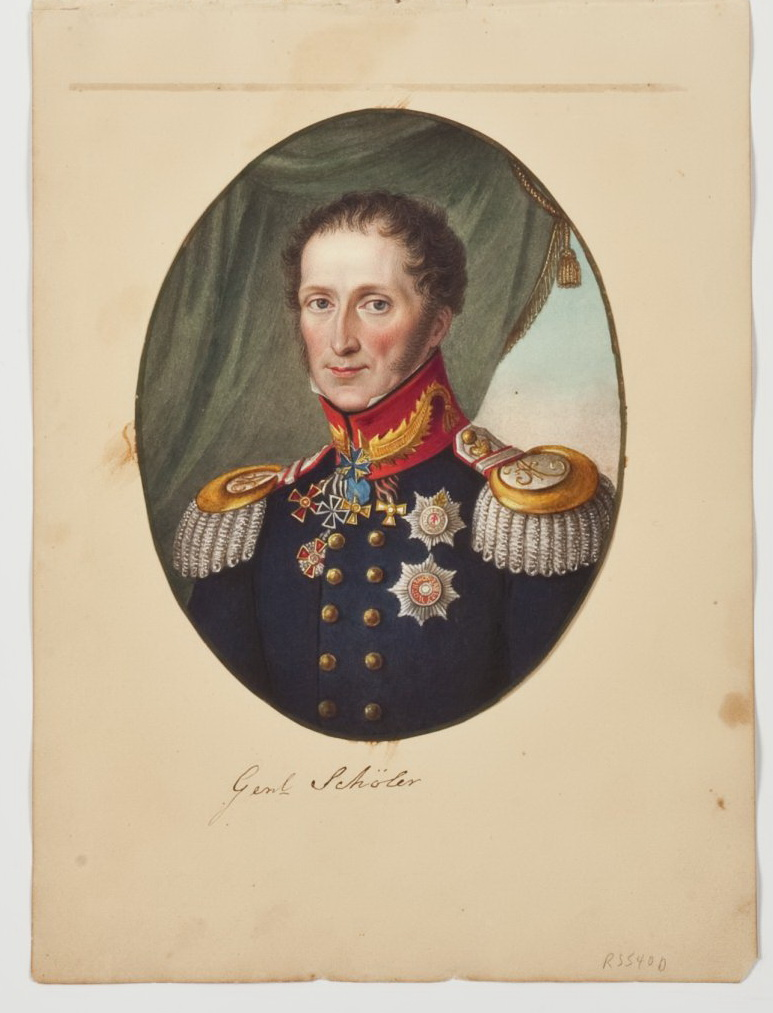 The Middleton Watercolor Album consists of a collection of 45 watercolor portraits bound in leather covers with neo-gothic embossing and a gilt bronze clasp in the same style. The album relates to the Middleton family of South Carolina, from which it descended until Hillwood purchased it in 2004. Williams Middleton—who was secretary to his father, Henry Middleton, the American minister to St. Petersburg from 1820 to 1830—assembled this album. The artist of many of the watercolors, most of which are unsigned, is likely Middleton's sister, Maria Henrietta, who studied painting during her years in St. Petersburg with her governess, Madame Mathes, who also painted miniatures. Two watercolors, including this portrait of the Countess Bobrinsky, are signed by the well-known Russian watercolorist Petr Sokolov. The portraits are of Russians and people in the foreign community who were close associates of the Middleton family. Their portraits provide an extraordinary commentary on the fashion and hairstyles of the 1820s.